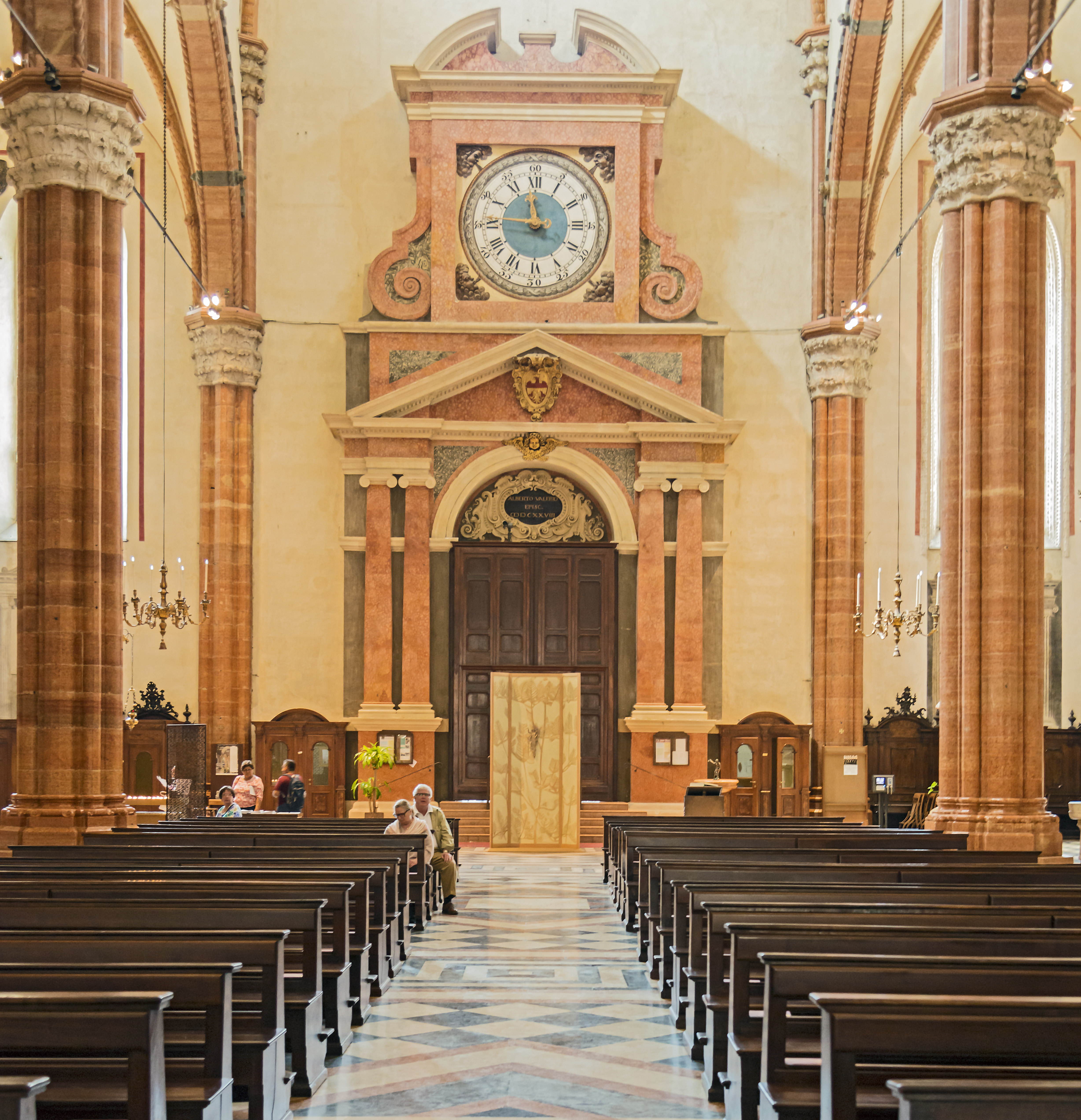 Cathedrale Santa Maria Matricolare - Monumental clock